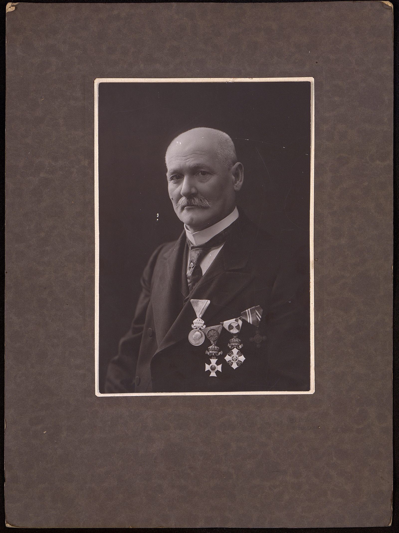 Boris Dyakovich - Director of Plovdiv National Library